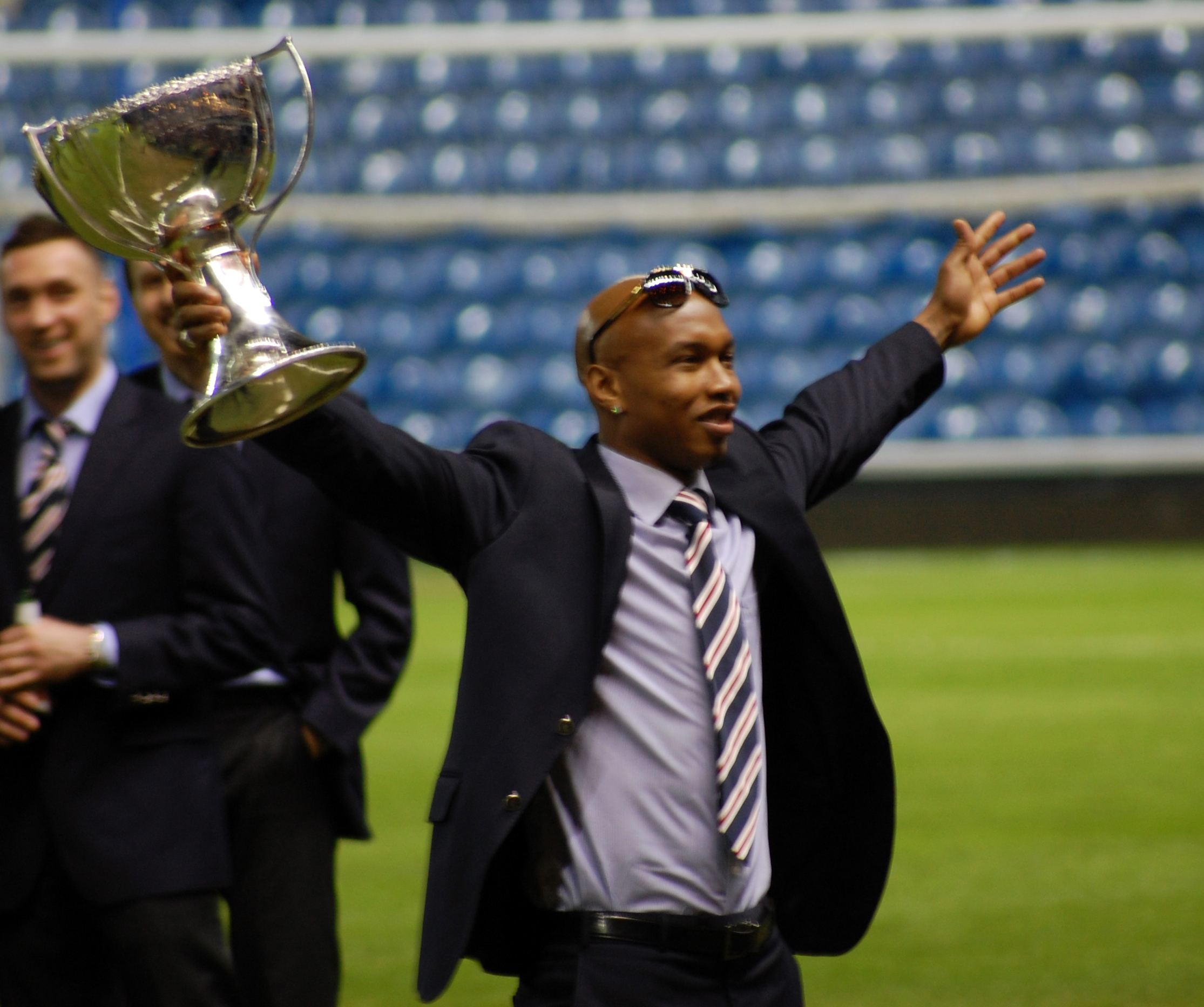 El Hadji Diouf Holding the CIS cup to the fans at Ibrox after the CIS cup final where Rangers won 2-1 against Celtic